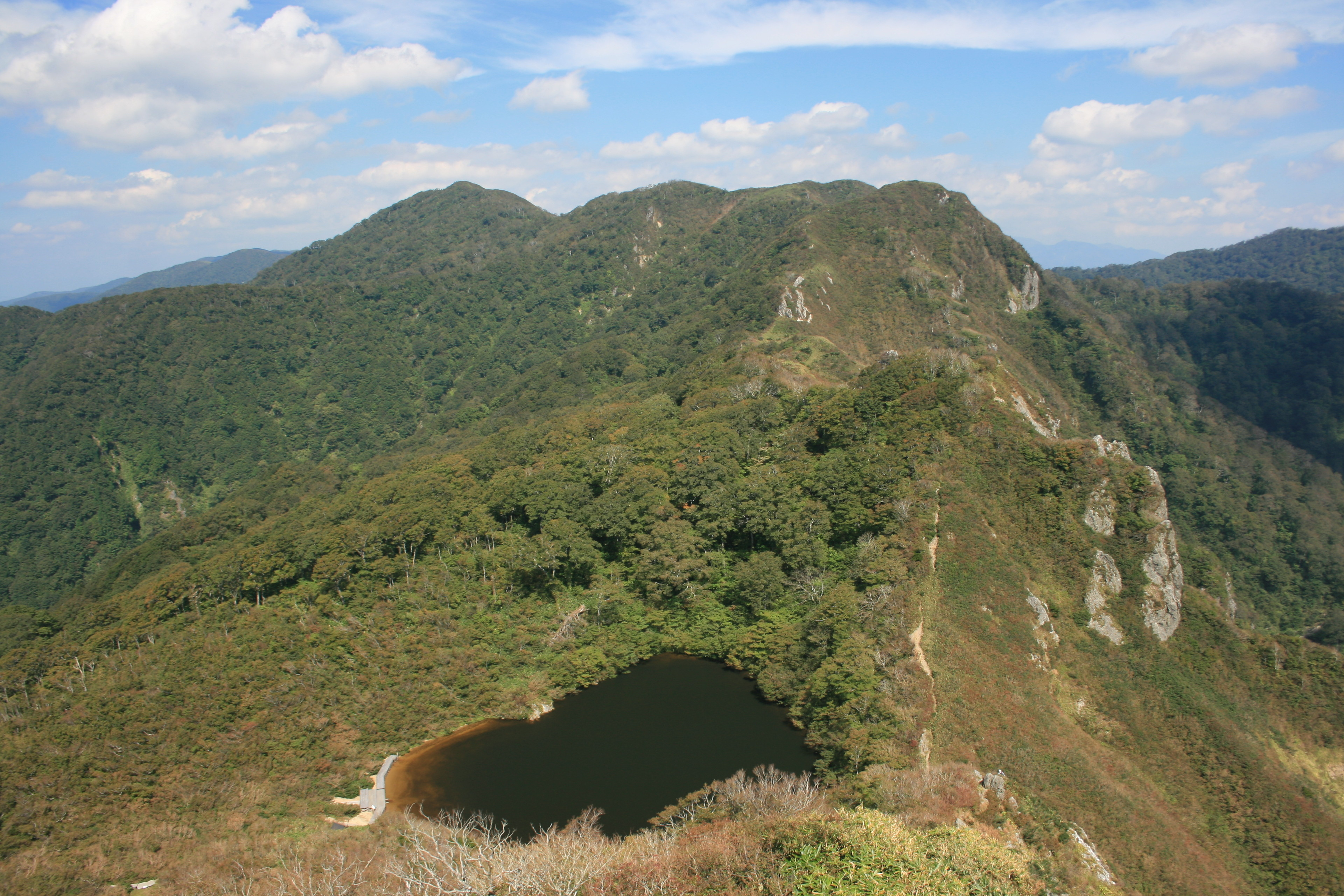 Yasyagaike and Mount Sanshu of Ryōhaku Mountains, Japan.